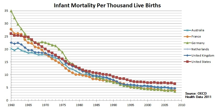 This image depicts the trend for infant mortality between 1960 to 2008 for the five first world nations of Australia, France, Germany, the Netherlands, the United Kingdom, and the United States. An 'OECD Health Data 2011' report is used for the information, which is available here. Note that the y-axis information is per 1000 live births.